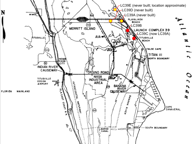 A 1963 map showing the layout of the Cape with additional proposed launch sites for launch pads.